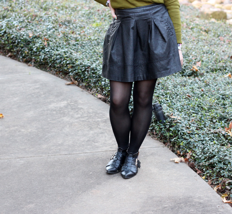 Black Faux Leather Forever 21 Skirt with Black Tights and Pointed Cutout Boots Model